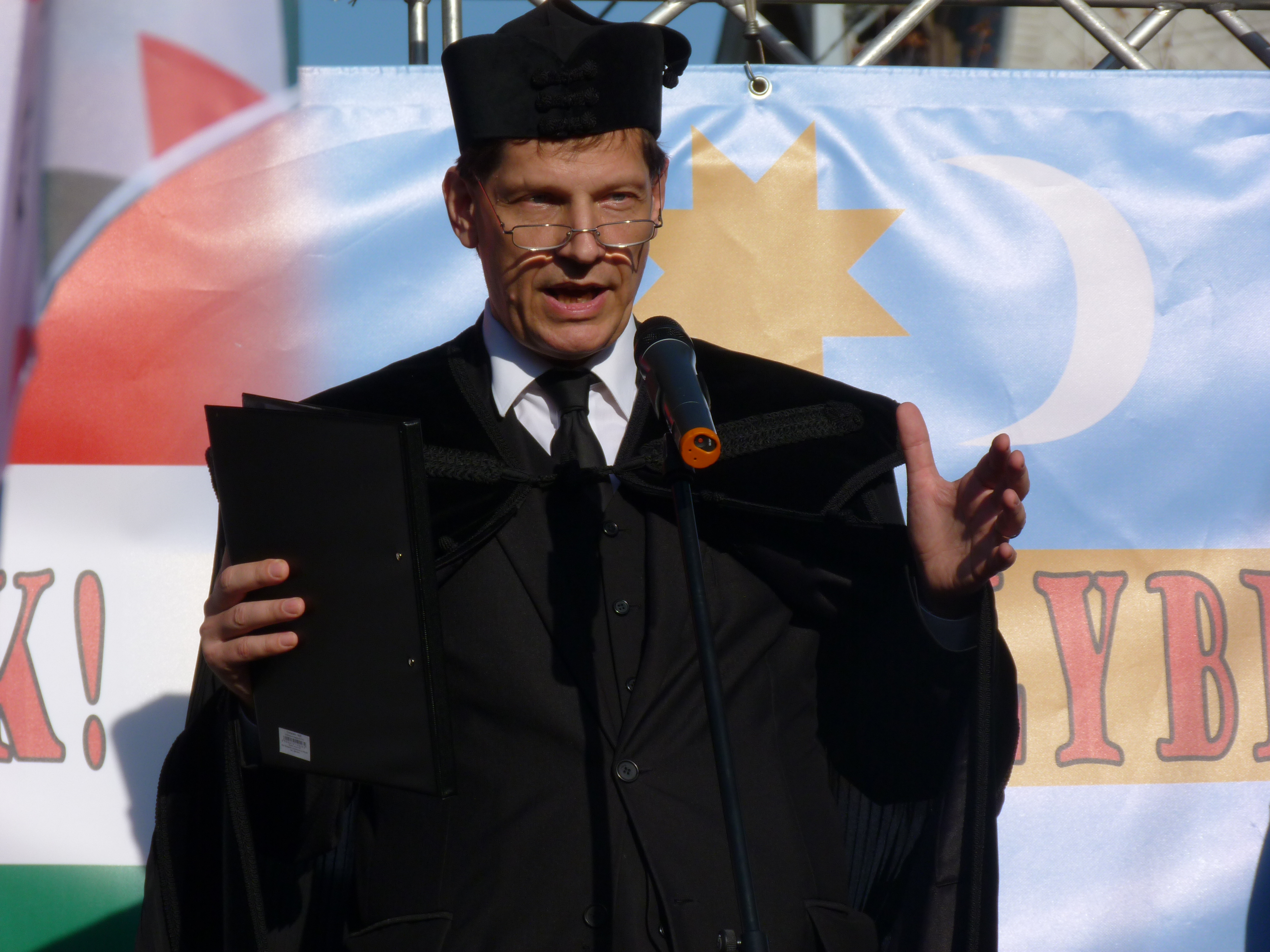 Székely (pronounced [ˈseːkɛj]) Land or Szeklerland (Hungarian: Székelyföld; Romanian: Ţinutul Secuiesc